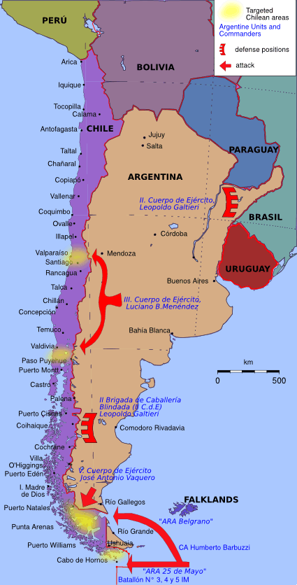 Attack position of Argentine Forces Operation Soberania on 22. Dec. 1978, english legend